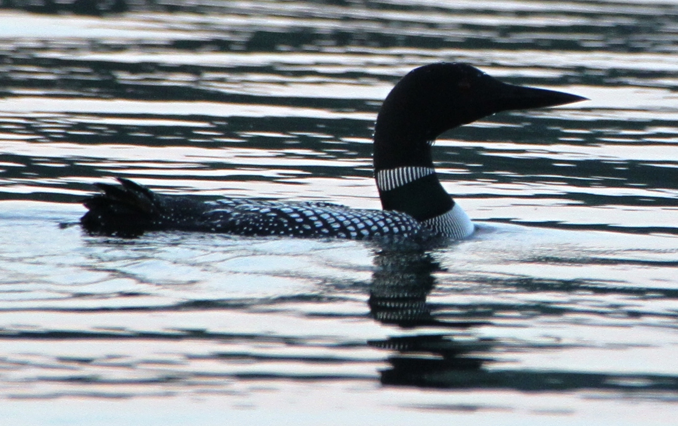 Image of loon (Gavia immer) at the Eagles Nest Lake, Ely, Minnesota.